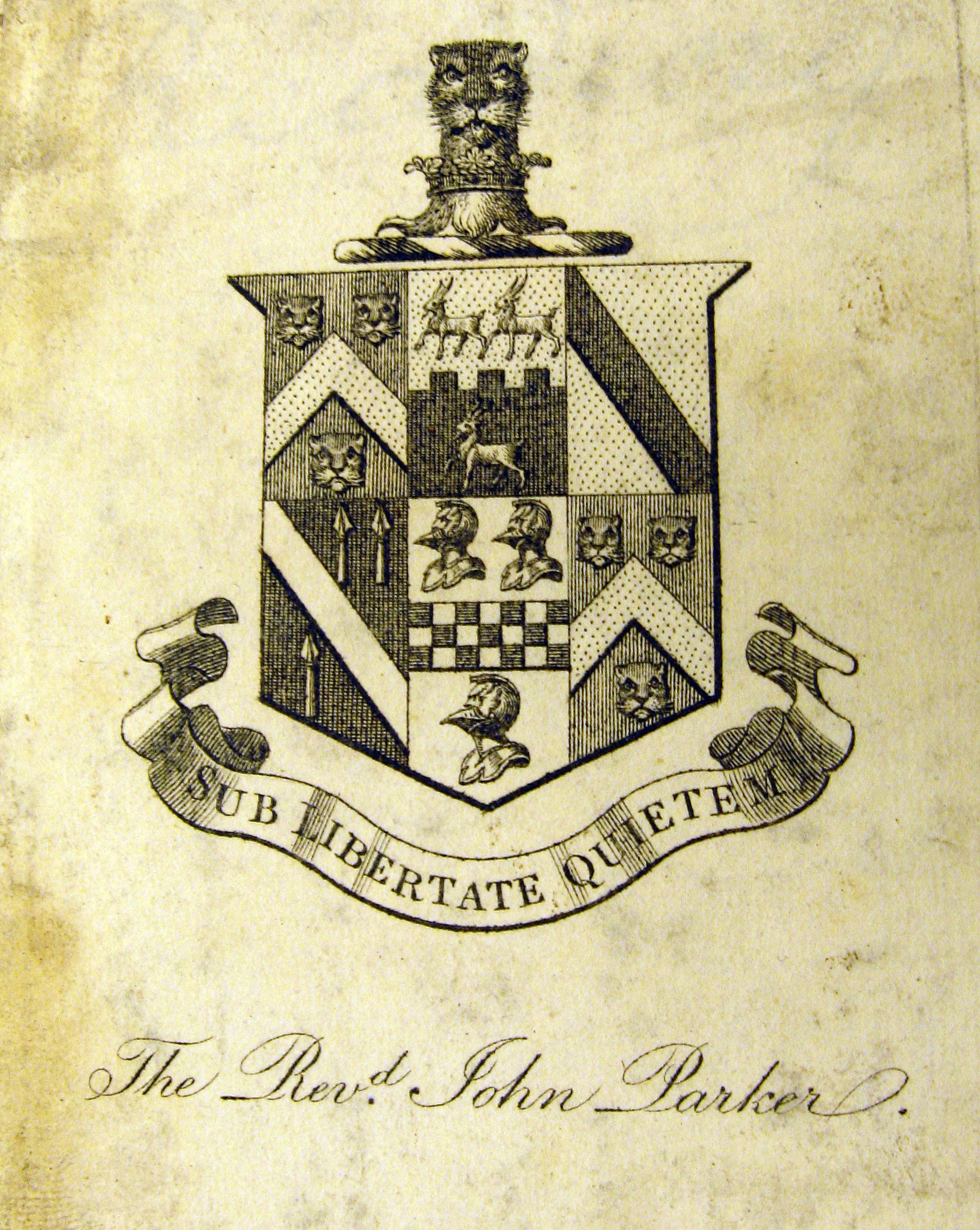 Bookplate of John Parker, a former owner of Drexel 4302, a music manuscript in the New York Public Library